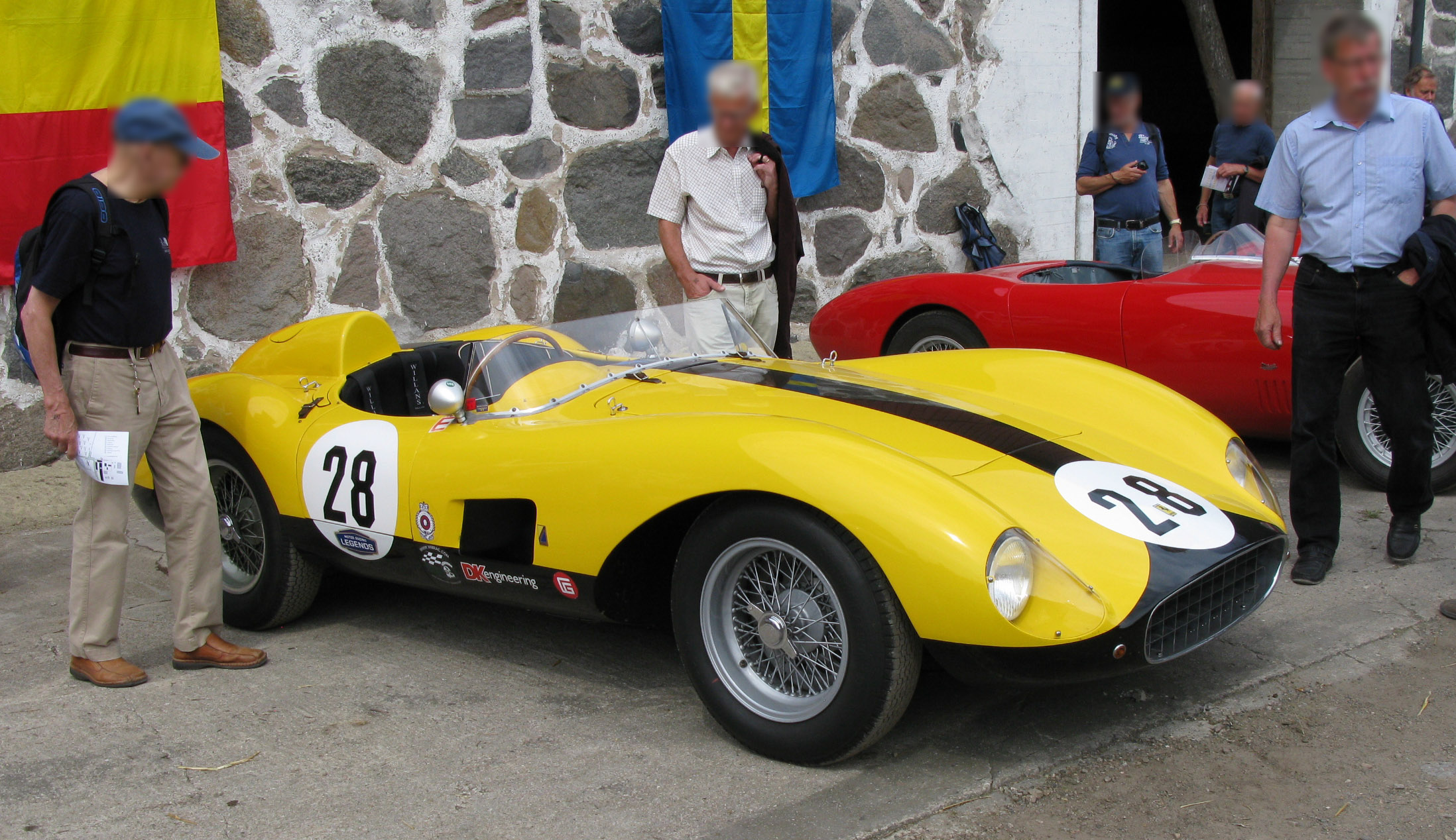 Belgian drivers Georges Harris and André Liekens finished 3rd in Sportscar Class 2 -2000cc in this car at Swedish Grand Prix in 1957.Event: 60 year anniversary of the Swedish Grand Prix in Kristianstad.